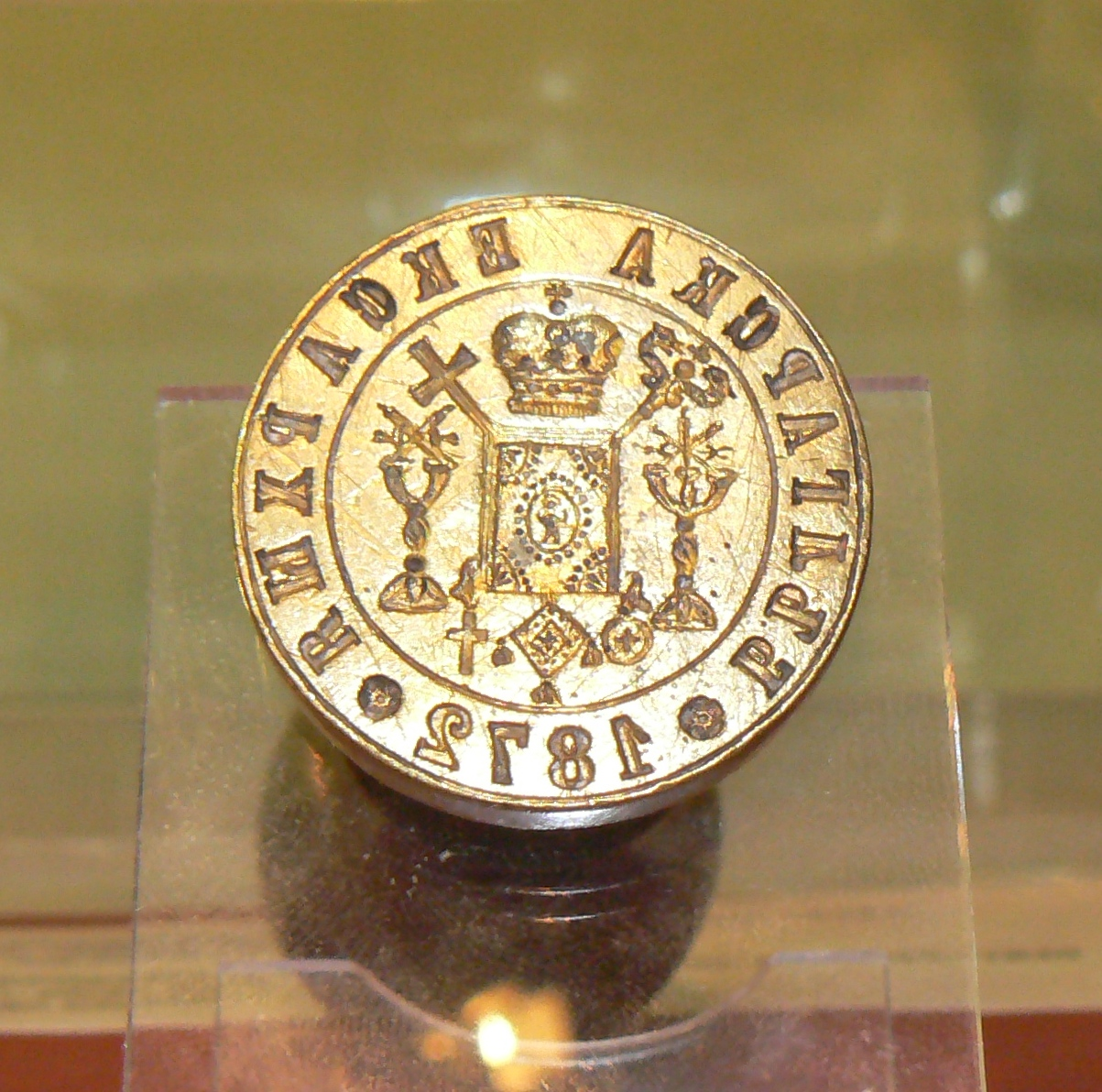 Seal of the Bulgarian Exarchate, 1872. Exhibit of the National History Museum of Bulgaria